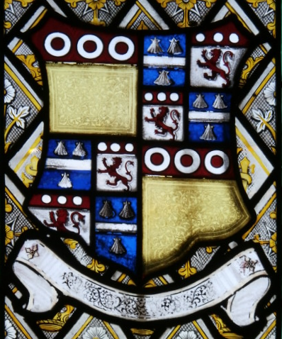 Arms of Rev. Thomas Hooper Morrison (1768-1824), of Yeo Vale in the parish of Alwington, Devon, son and heir of Rev. Hooper Morrison of Yeo Vale by his wife Charlotte Orchard (1735-1791), sister and in her issue heiress of Paul II Orchard (1739-1812) of Hartland Abbey, Devon. Arms: Quarterly of 4, 1& 4: Or, on a chief gules three chaplets of the first (Morrison, here shown with chaplets argent not or); 2&3: quarterly of 4: 1&4: Azure, a fess between three escallops argent (erroneous arms of Orchard, which should be: Azure, a chevron argent between three pears pendant or, as visible in Hartland Church[1], and quartered by the Stucley Baronets of Hartland Abbey); 2&3: Argent, a lion rampant gules on a chief of the last three plates (unknown)